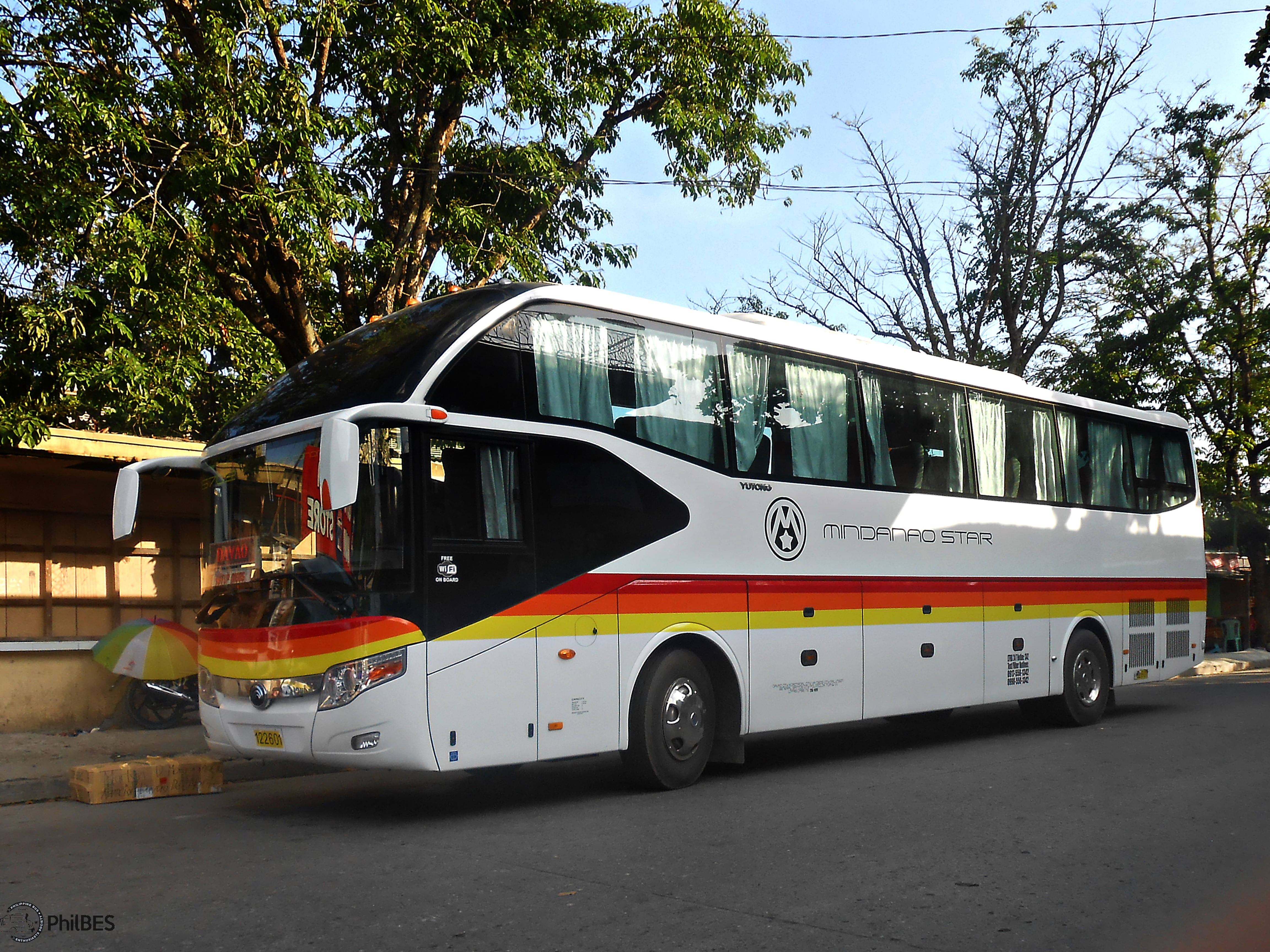 Yutong ZK6127H Location: Davao CIty Overland Transport Terminal